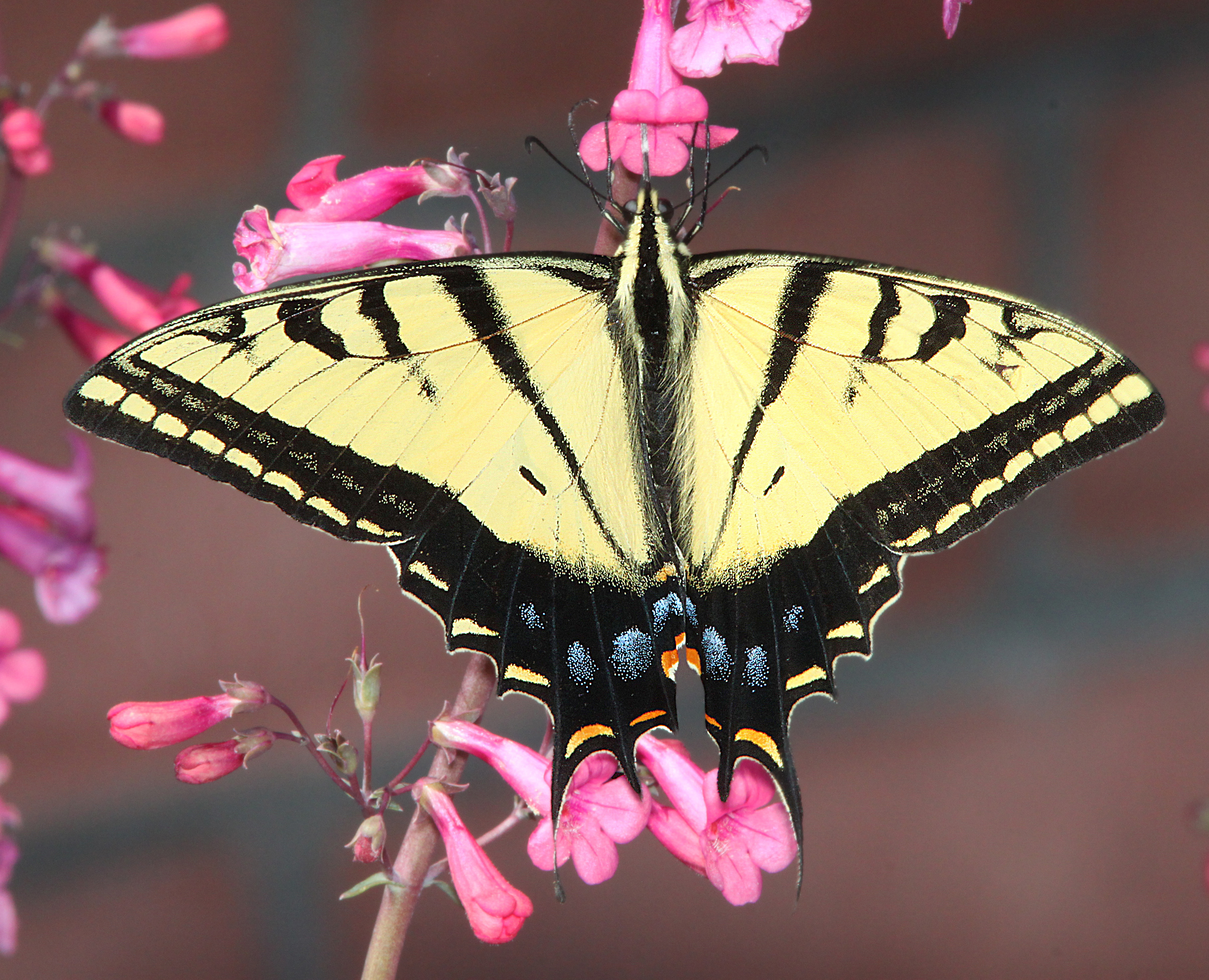 Butterflies of North America